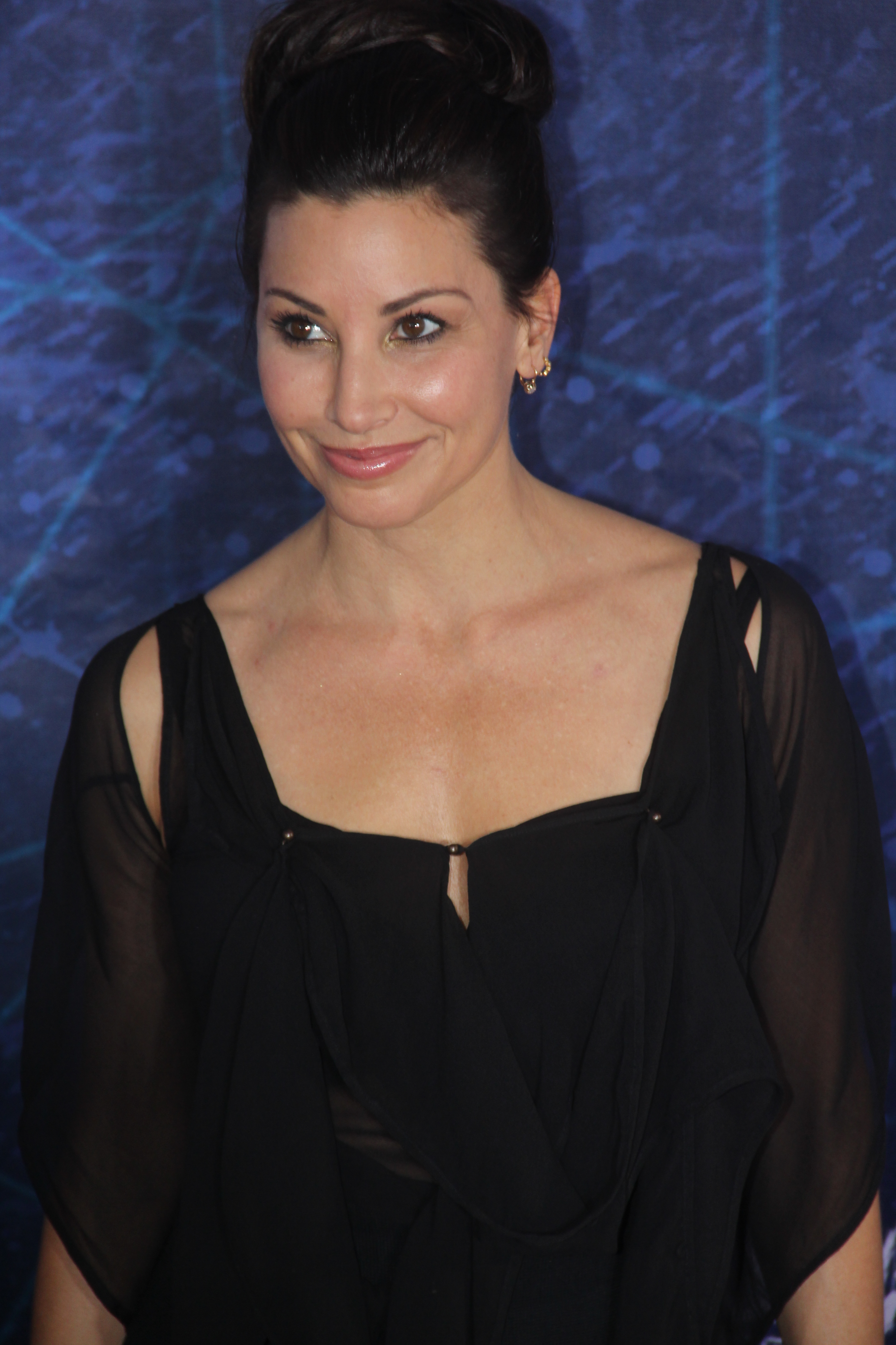 Spiderman: Turn Off the Dark Opening June 14th 2011 Foxwoods Theatre, New York City